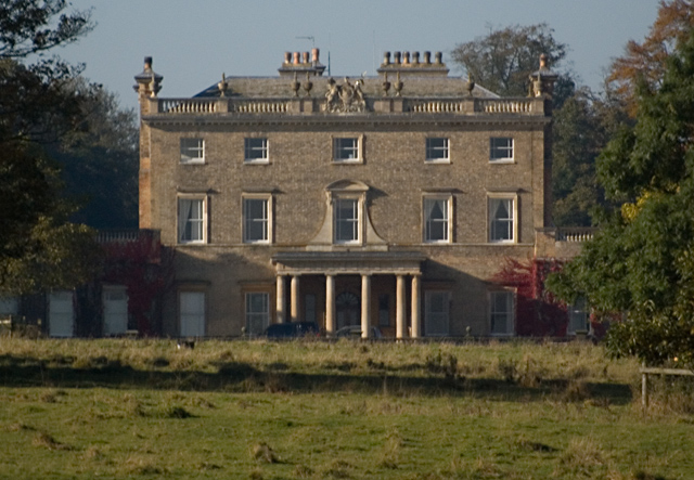 Dalton Hall, South Dalton